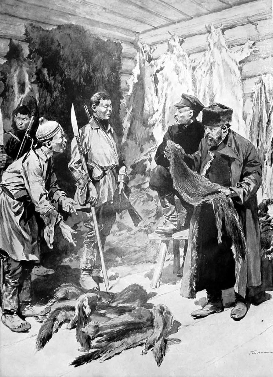 After the winters hunting: The selling of the pelts. Trading skins for firearms, knives and other goods. Yakuts Tunguses Bartering Furs with the Russian Merchants Agents.